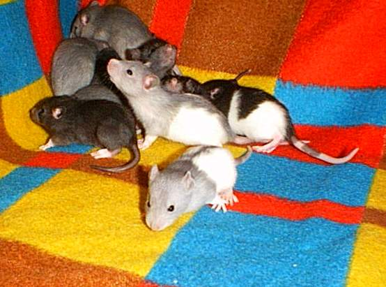 Photo of young rats made by Waldemar Zboralski.